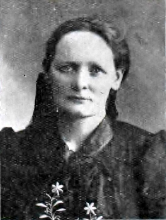 Photo of Mrs. Ragnheiður Davíðsdóttir Fagriskógur Eyjafjörður Iceland 1864-1937